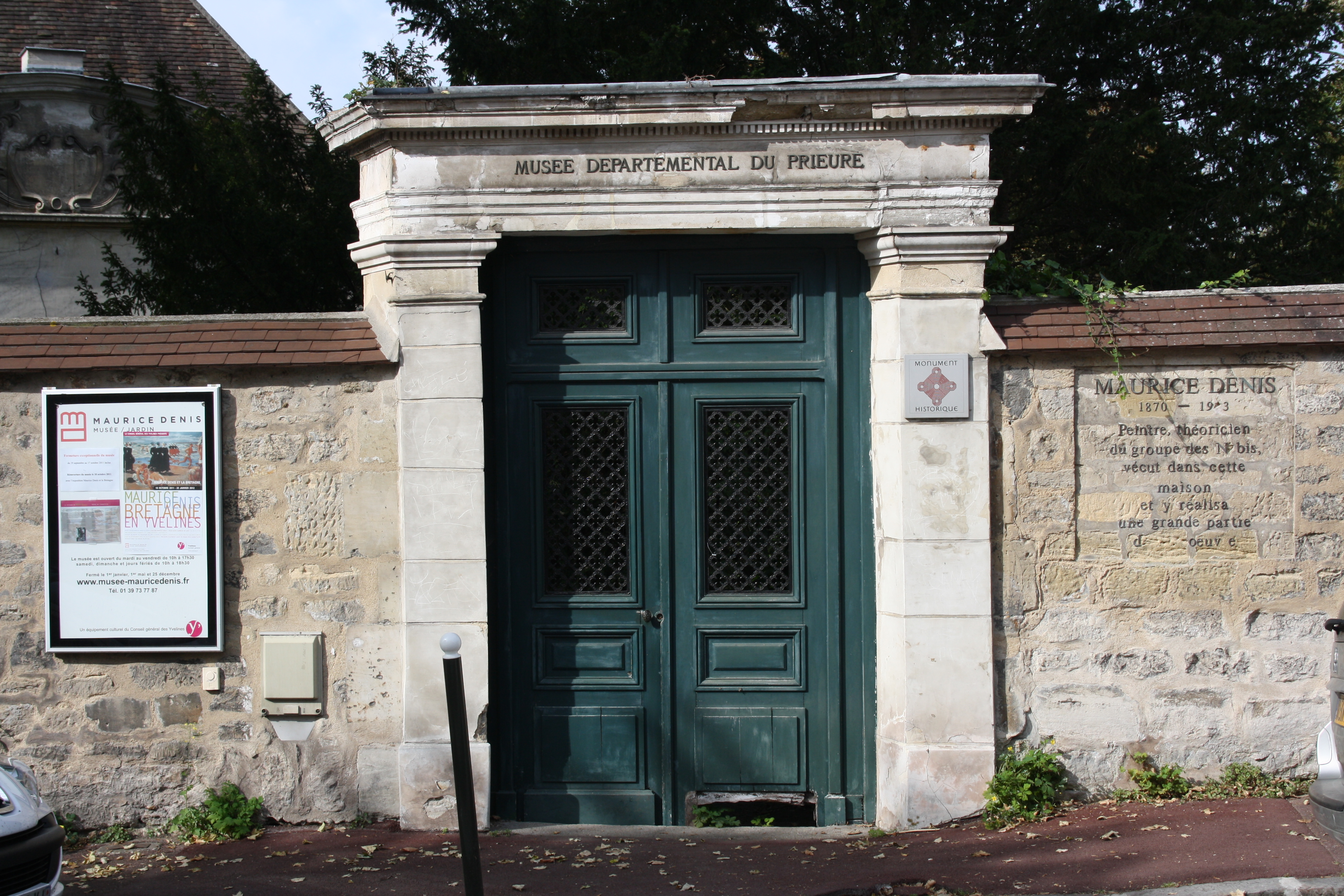 The Musée départemental Maurice Denis « Le Prieuré » is a museum located 2bis Maurice-Denis street in Saint-Germain-en-Laye, France and dedicated to the work of the painter Maurice Denis and his friends. .